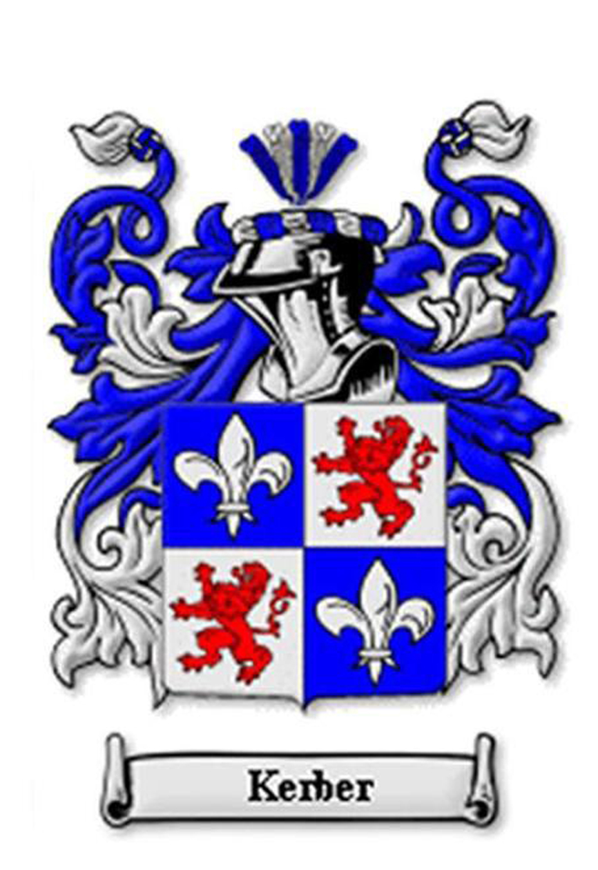 Wappen von Körbe N8